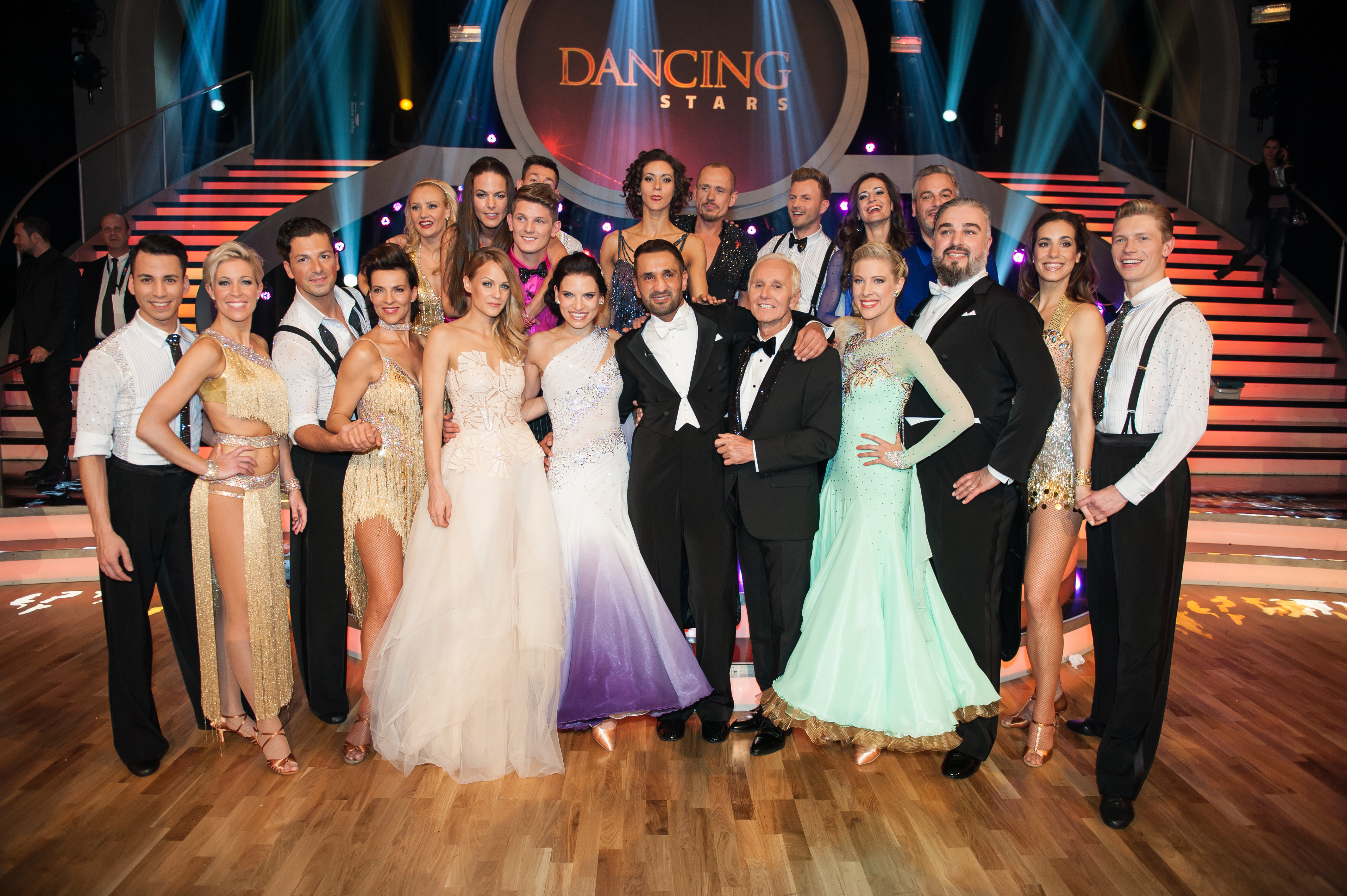 ORF Dancing Stars Opening 2016-03-04